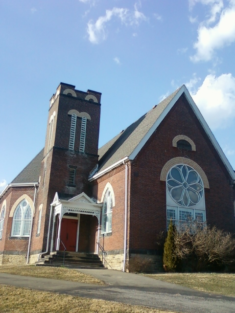 This photograph shows the Laurel Hill Presbyterian Church during the summer of 2012.